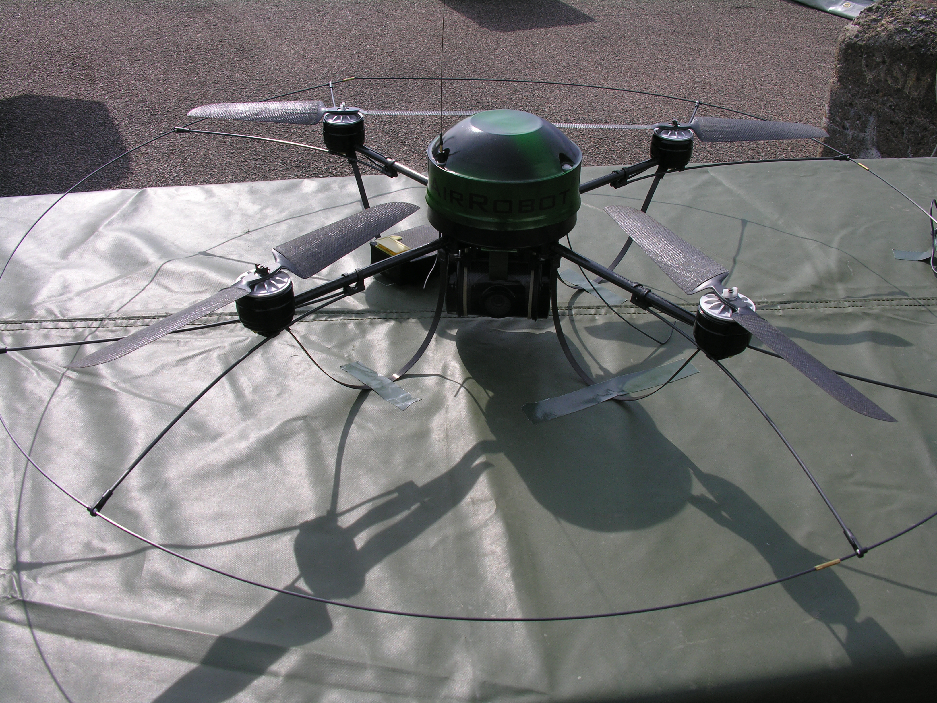 UAV AirRobot AR-100B (Germany)